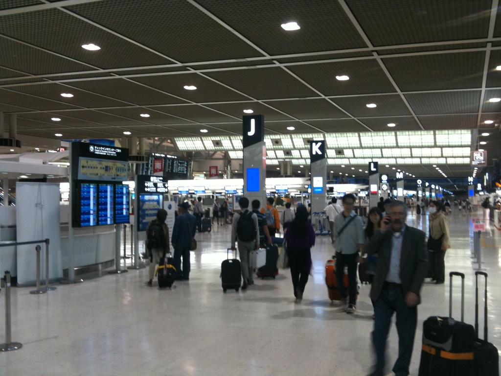 Narita International Airport Terminal 2